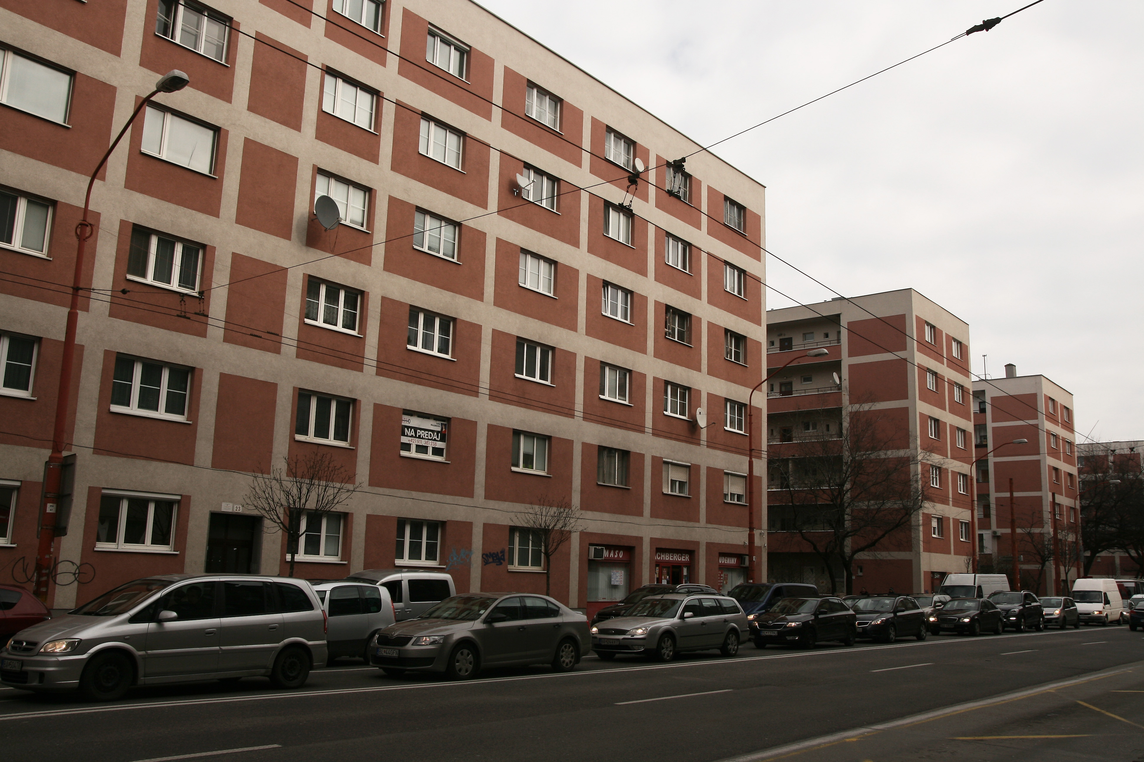 Social housing UNITAS in Bratislava, Slovakia. Constructivist architecture from 1930, architects Friedrich Weinwurm and Ignác Vécsei.